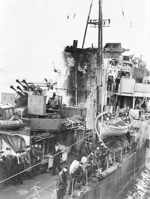 Reproduction ID: AD14891 Maker: Unknown Date: 1940s This photograph is featured in Arctic Convoys, a new photographic exhibition looking at the experiences of those who served on the Arctic Convoys. It's on at the National Maritime Museum until 4 November 2012